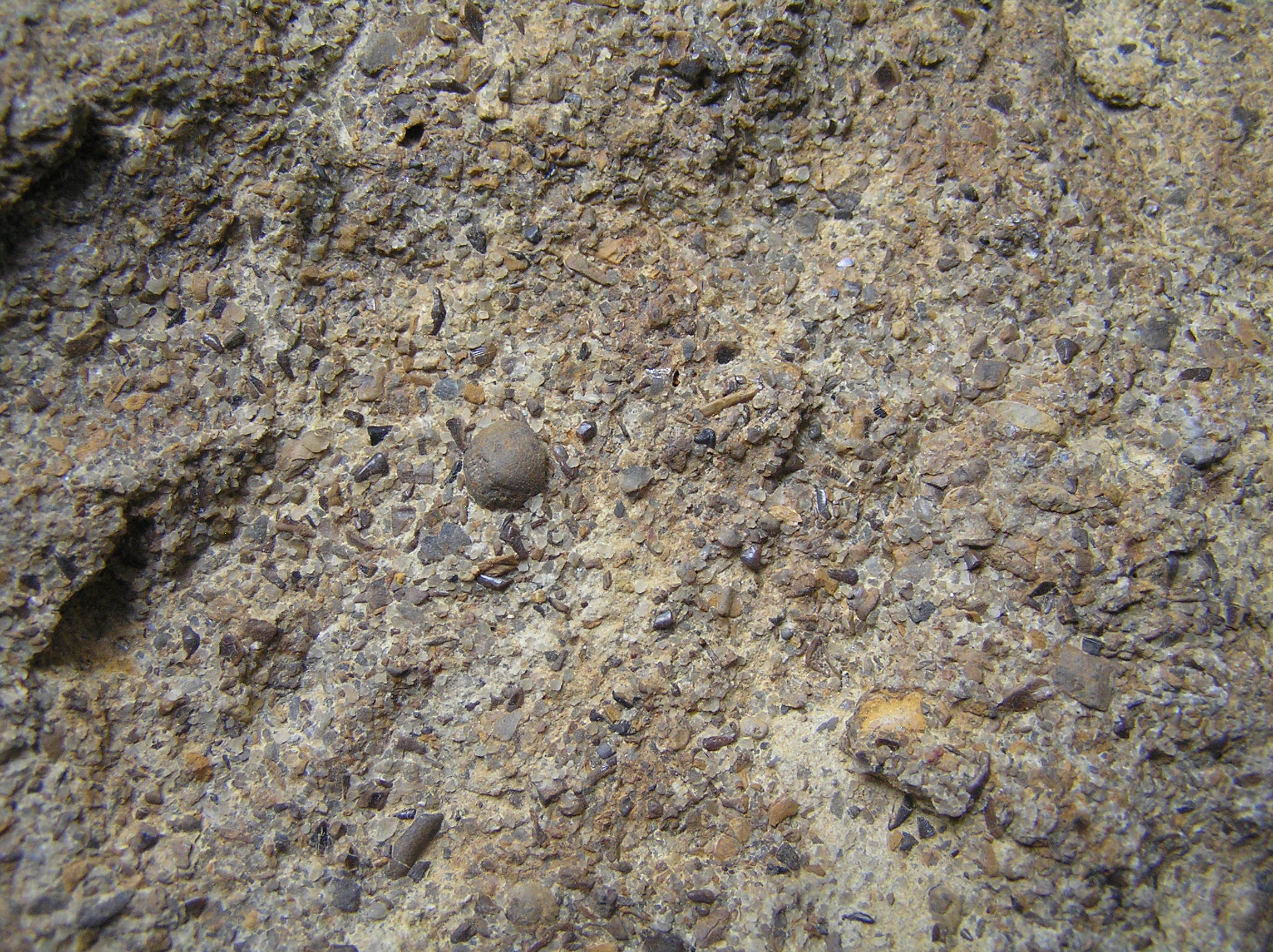 Bonebed at the Triassic/Jurassic boundary (“Rhät-Lias-Grenzbonebed”) in the Tübingen area, SW German platform